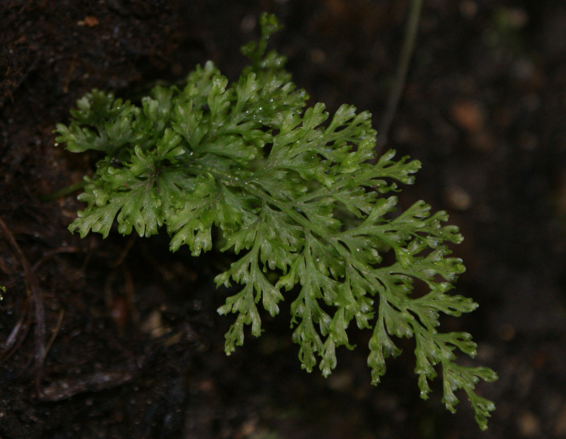 Trichomanes speciosum